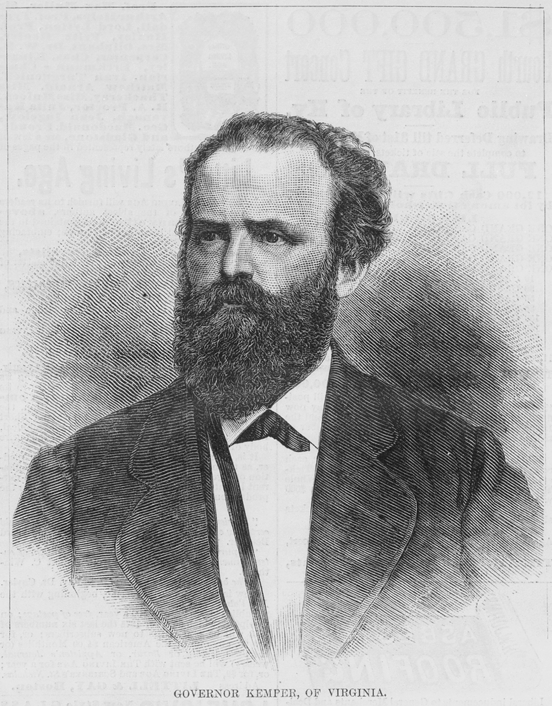 American politician and Confederate general James Lawson Kemper.